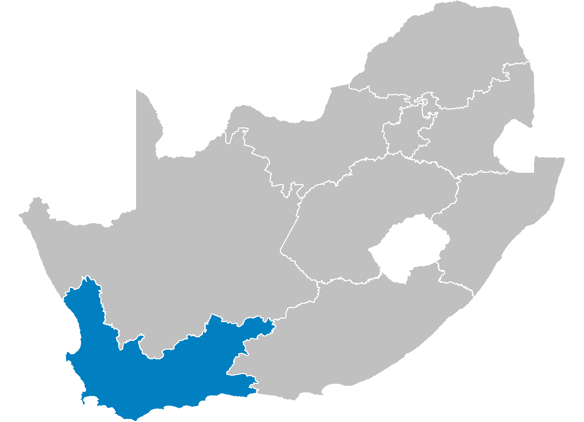 Map of South Africa showing the Western Cape province after the 12th amendment of the constitution in December 2005.